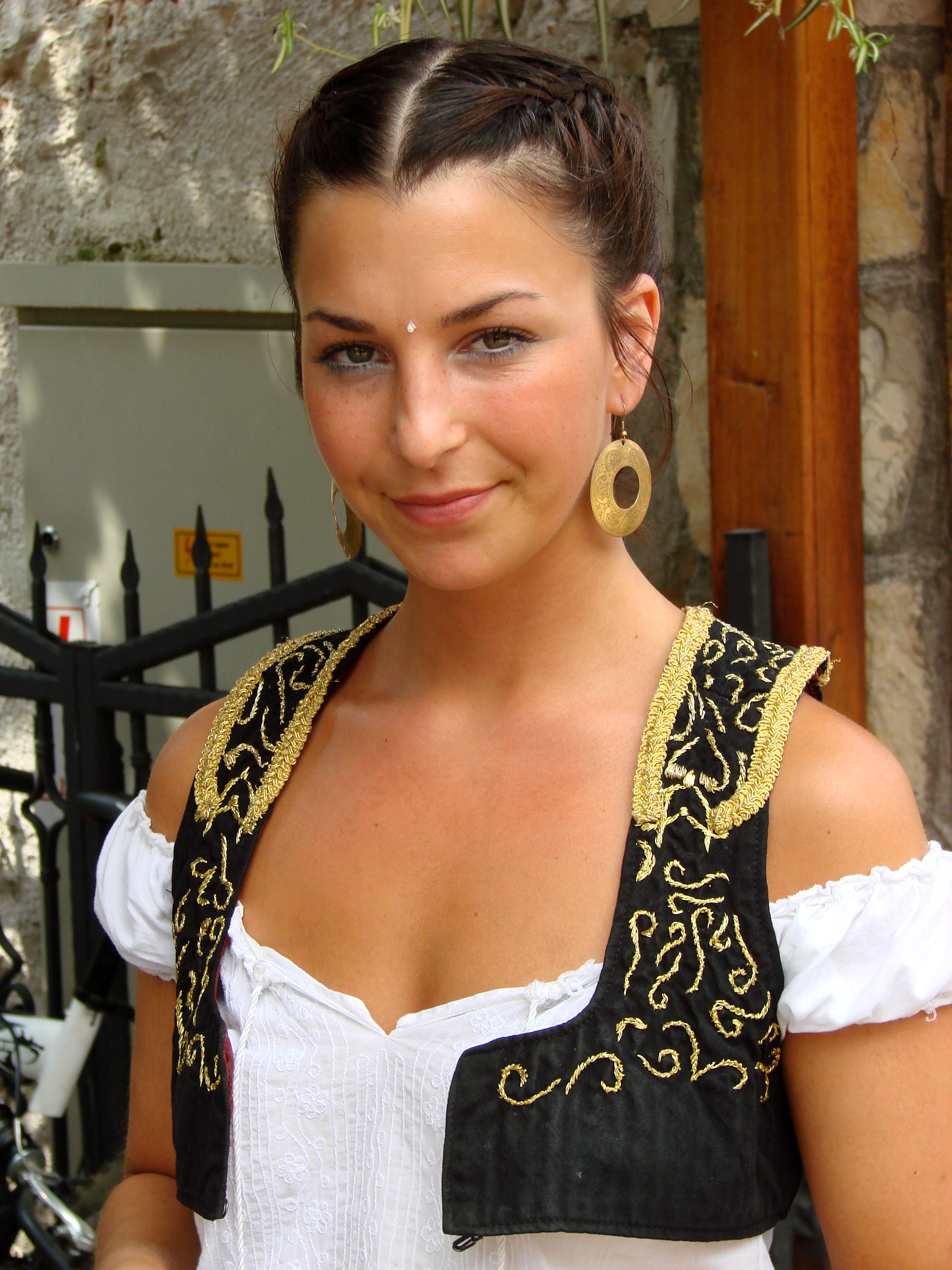 A waitress in the Old City of Mostar, Bosnia and Herzegovina. July 2007.